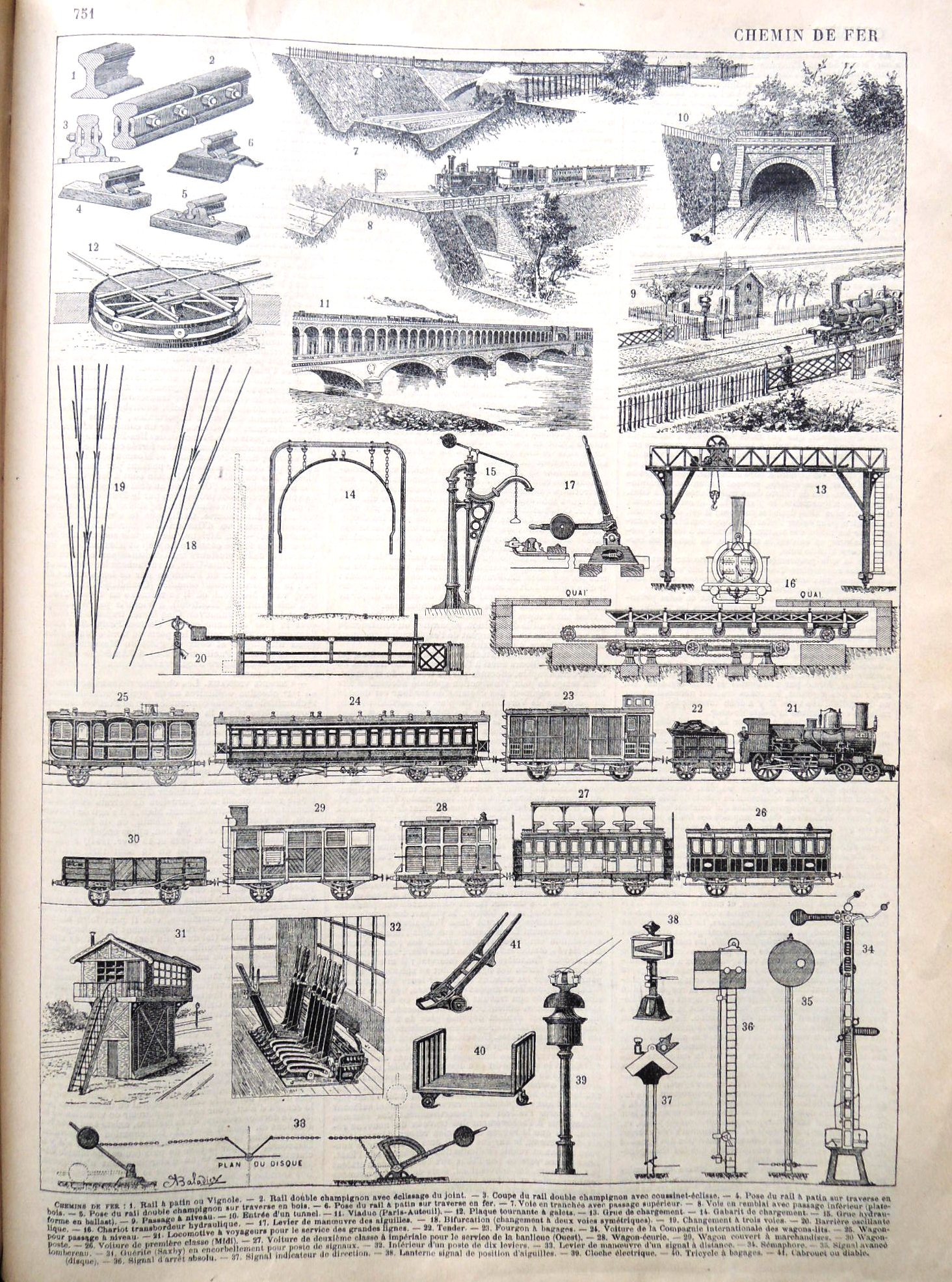 19th Century railways